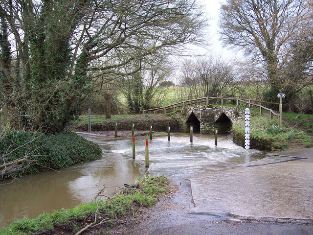 Ford, Fifehead Neville Ford through the River Divelish with the Medieval packhorse bridge to the right.